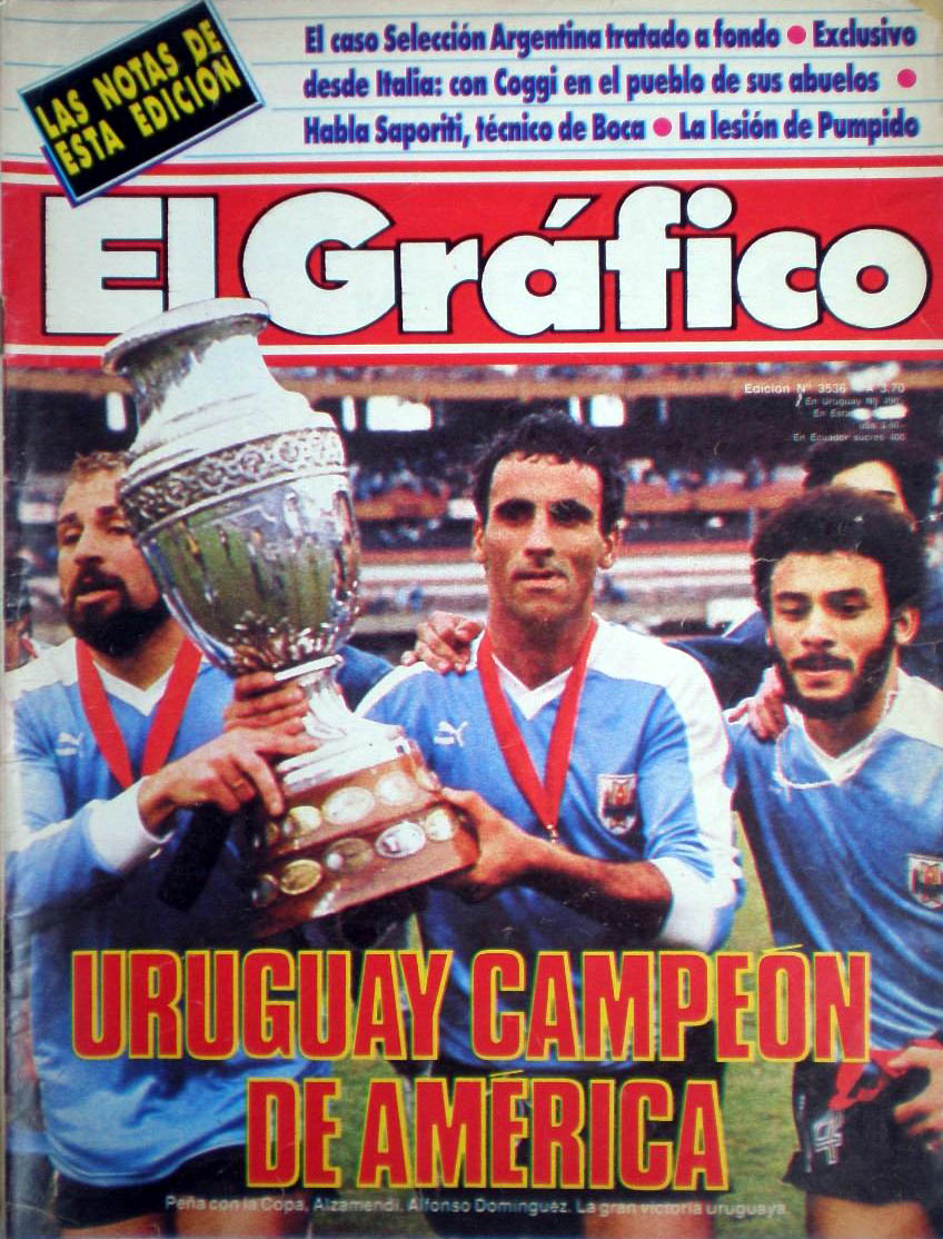 Uruguay national football team holding the Copa América trophy: José Enrique Peña, Antonio Alzamendi, Alfonso Enrique Domínguez.